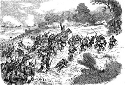 Caesar Rüstow(June 18, 1826 – July 4, 1866) leading an attack on the horse en, de